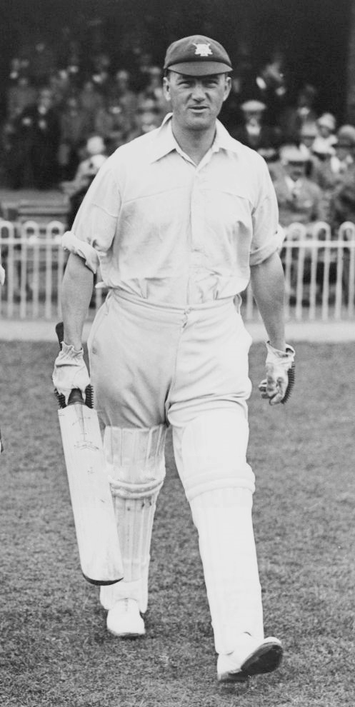 English cricketer William Whysall (1887 - 1930) walking out to bat at a cricket festival, 1926.